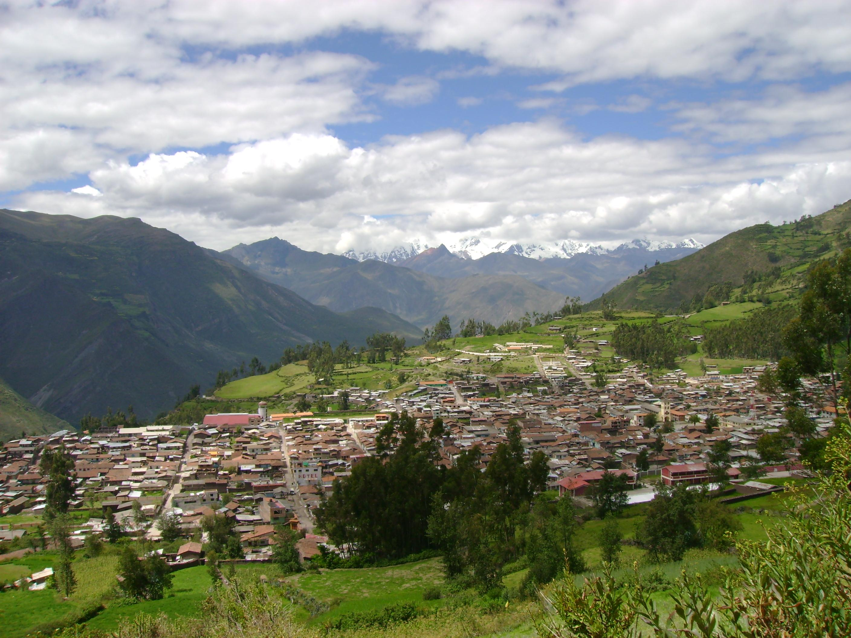 Chiquián panoramic view.